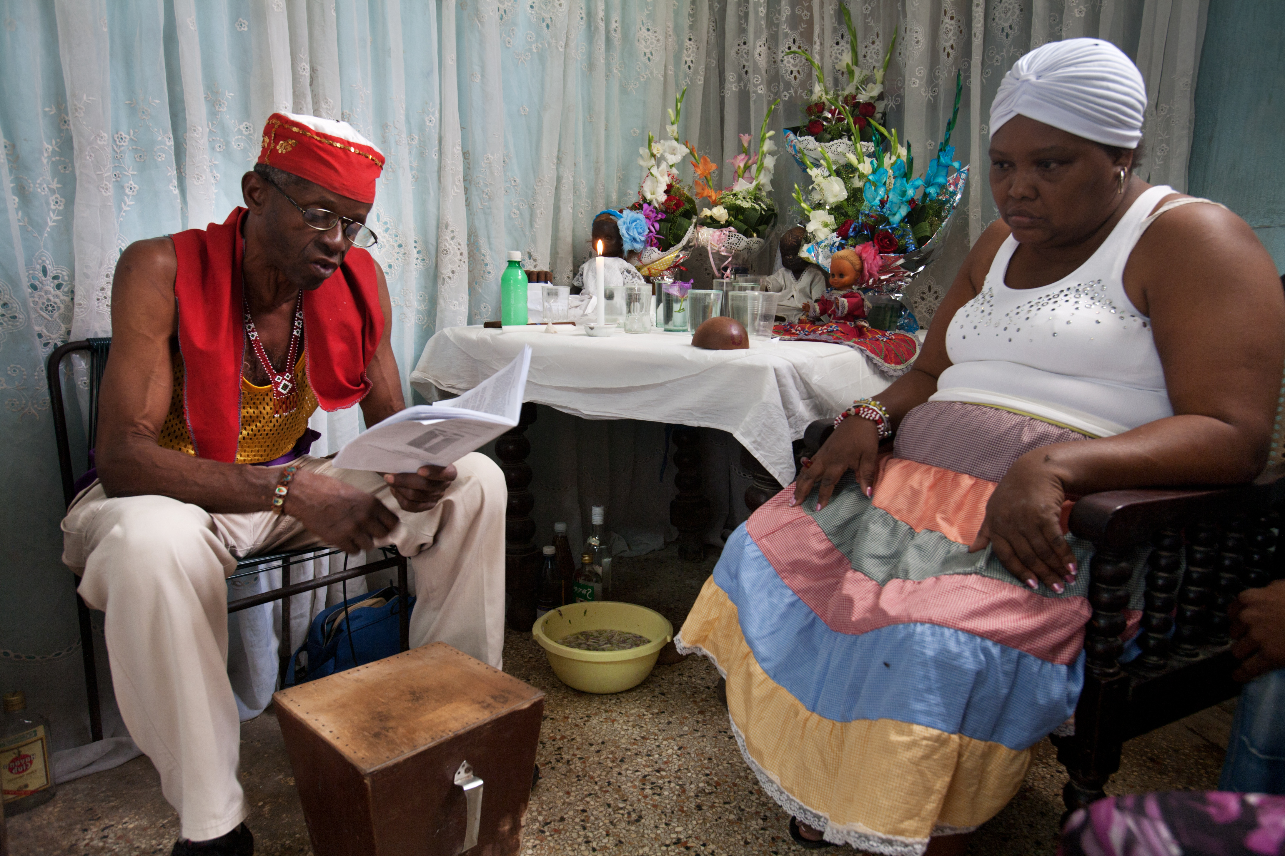 Santería is a system of beliefs that merge the Yoruba religion with Roman Catholic and Native Indian traditions. This ceremony is called "Cajon de Muertos". Havana (La Habana), Cuba